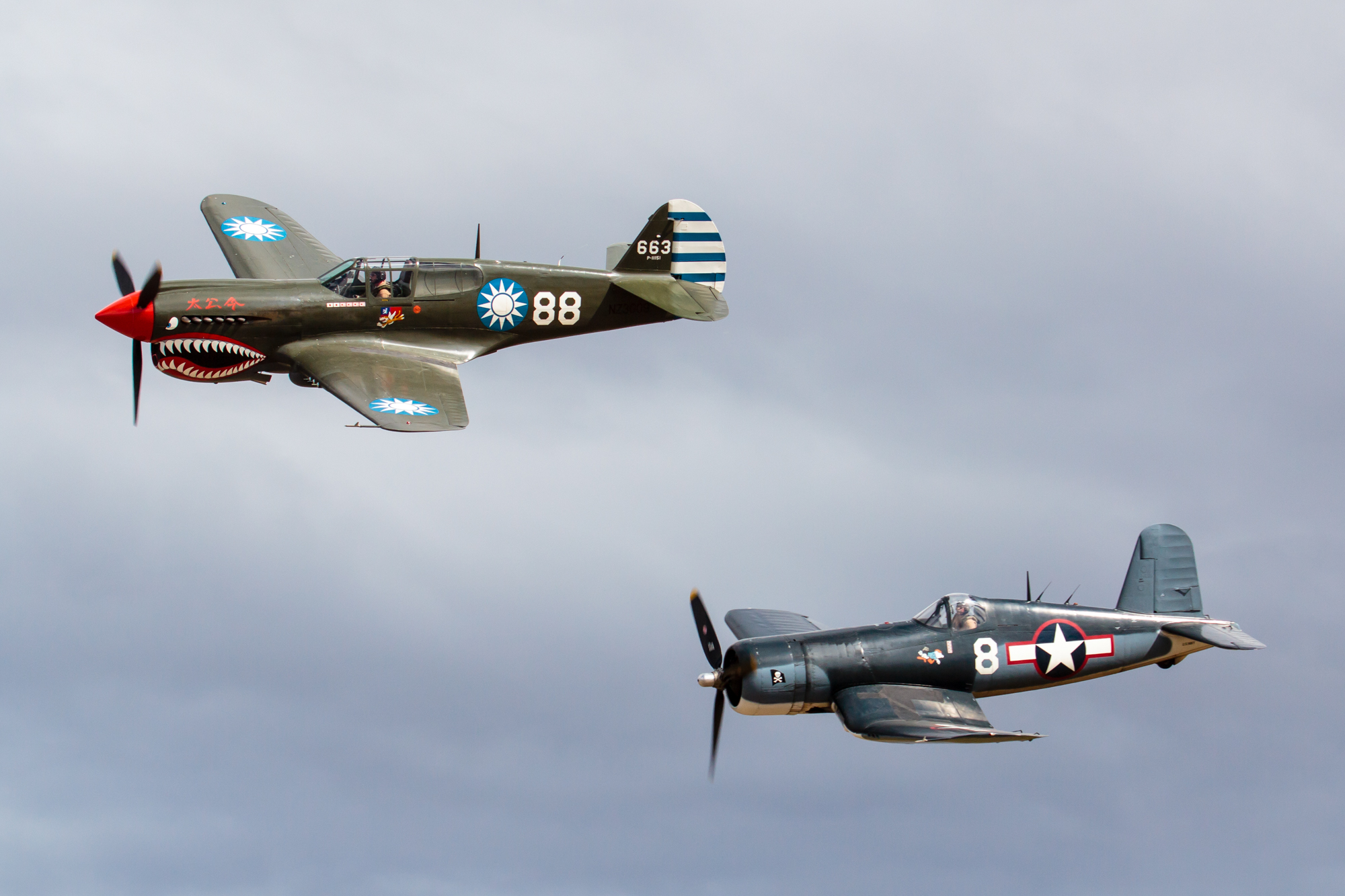 Classic Fighters 2015 - Vought Corsair ZK-COR and Kittyhawk ZK-RMH